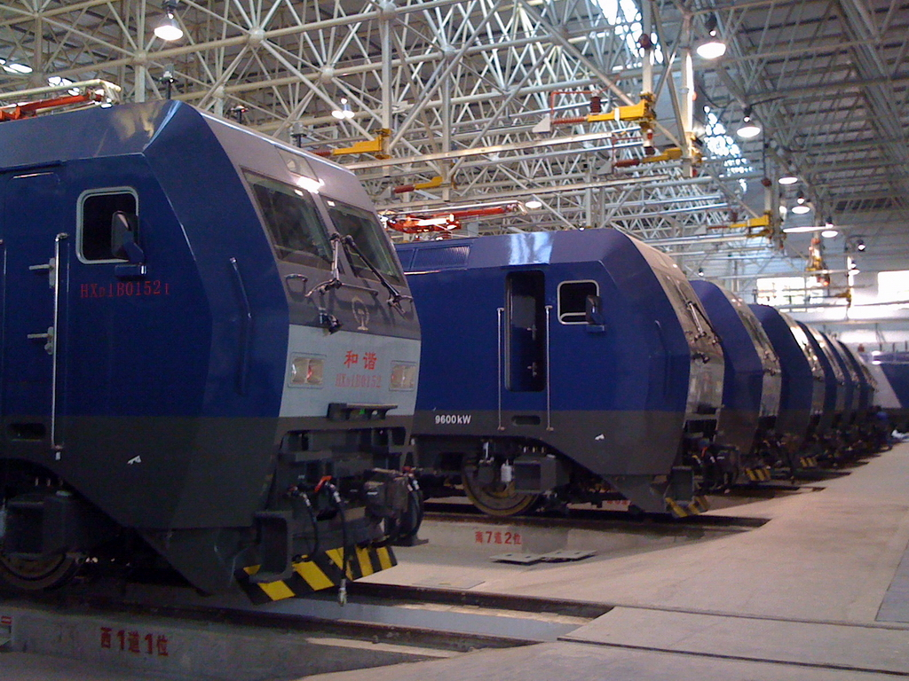 HXD1B -Manufacture Factory